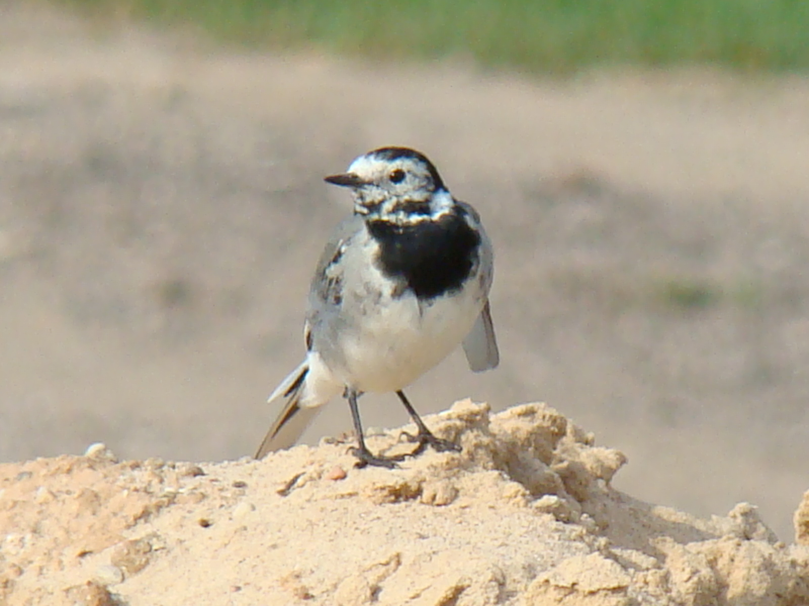 Photo of the White Wagtail (Motacilla alba) in in Raizgiai, Siauliai, Lithuania.